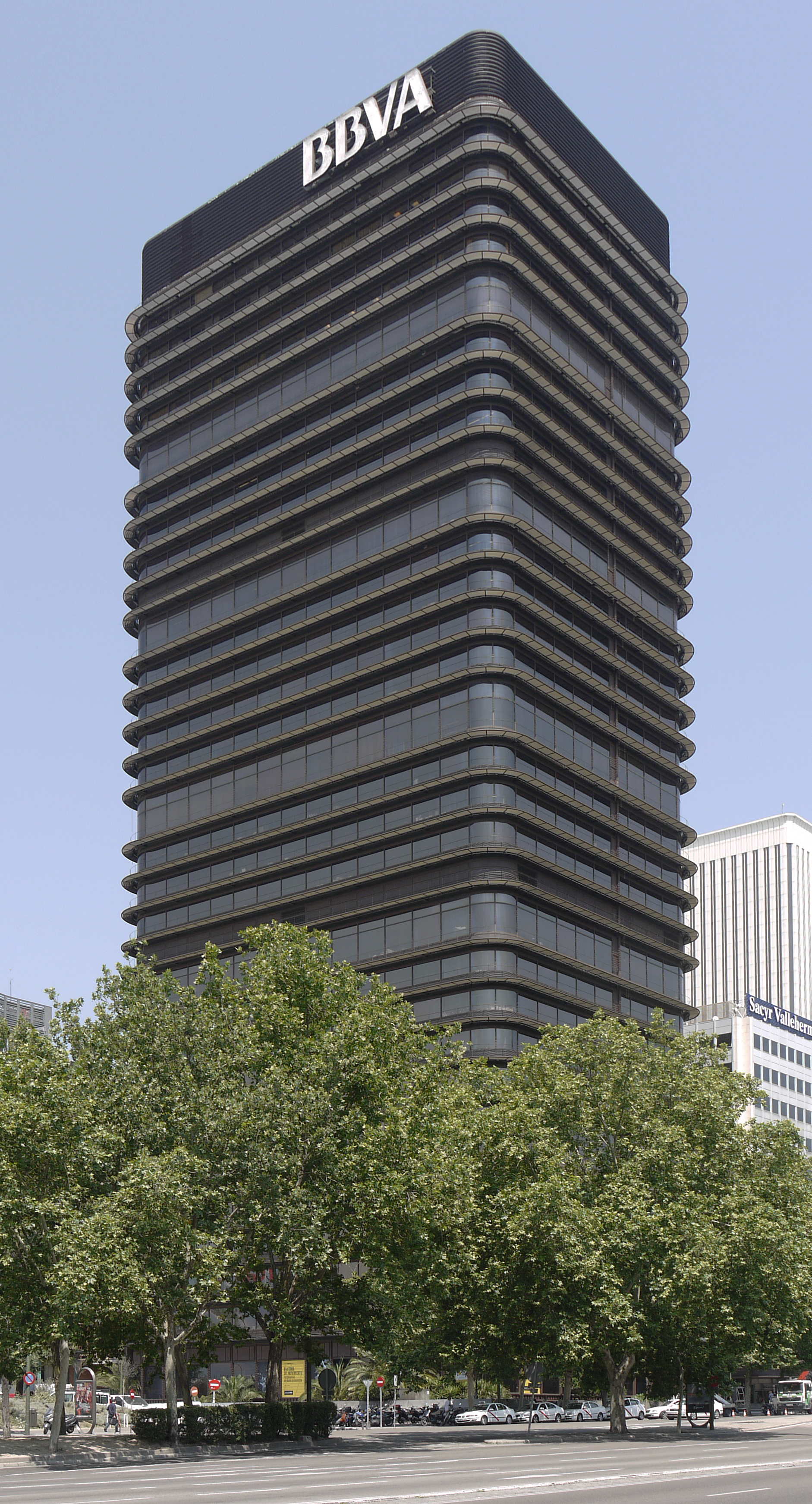 Torre BBVA, Paseo de la Castellana, Madrid, Spain.